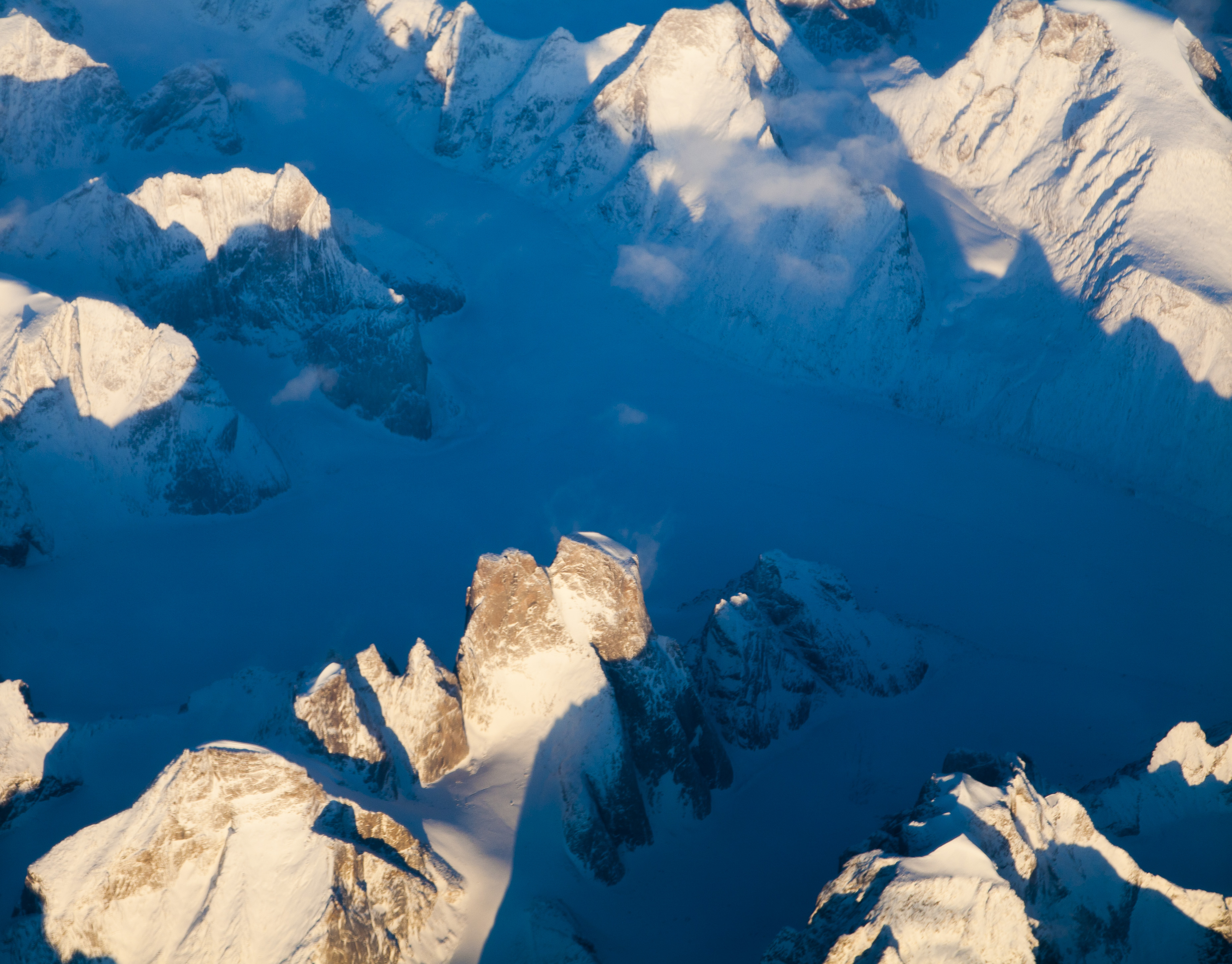 Mount Asgard which looks above like a tooth, is deep in on Baffin Island's Cumberland Peninsula. Named after the realm of Norse gods, from below it looks the part. This is in one of the most spectacular, remote and barely-accessible places in the northern hemisphere. And amazing to see from above halfway between London and Los Angeles. Since it's just north of the Arctic Circle, the Sun won't see it at the Winter Solstice, one month past the day I shot this. By the way, one of the great James Bond ski chase stunts in history was shot here, incredibly. See this video, explaining it. Start at about 1:33.